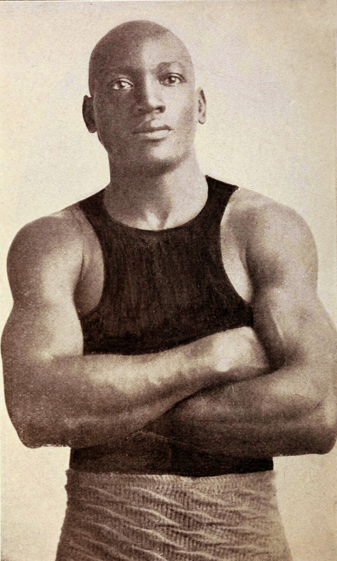 Photograph of Jack Johnson